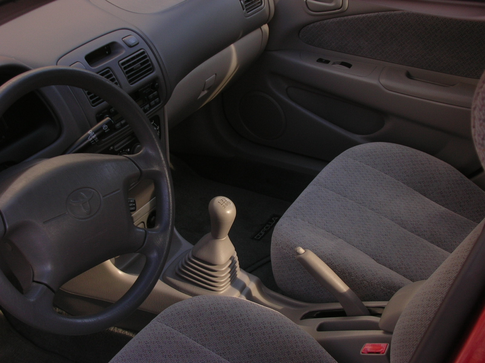 A picture of my 1999 Toyota Corolla CE, featuring a 5-speed manual transmssion.